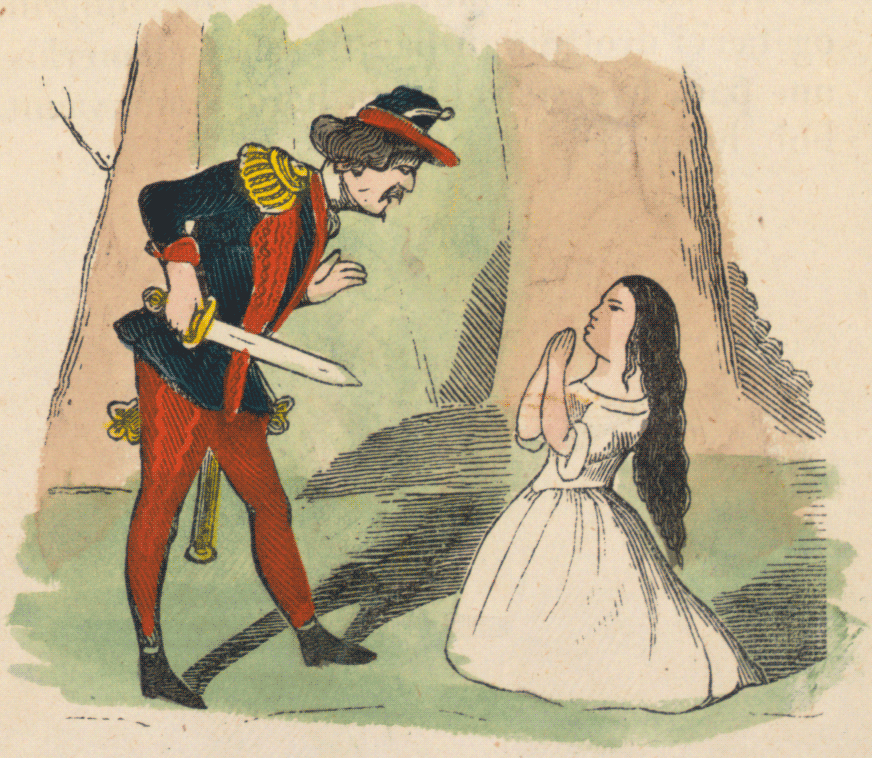 An illustration from page 7 of Mjallhvít (Snow White) an 1852 icelandic translation of the Grimm-version fairytale.